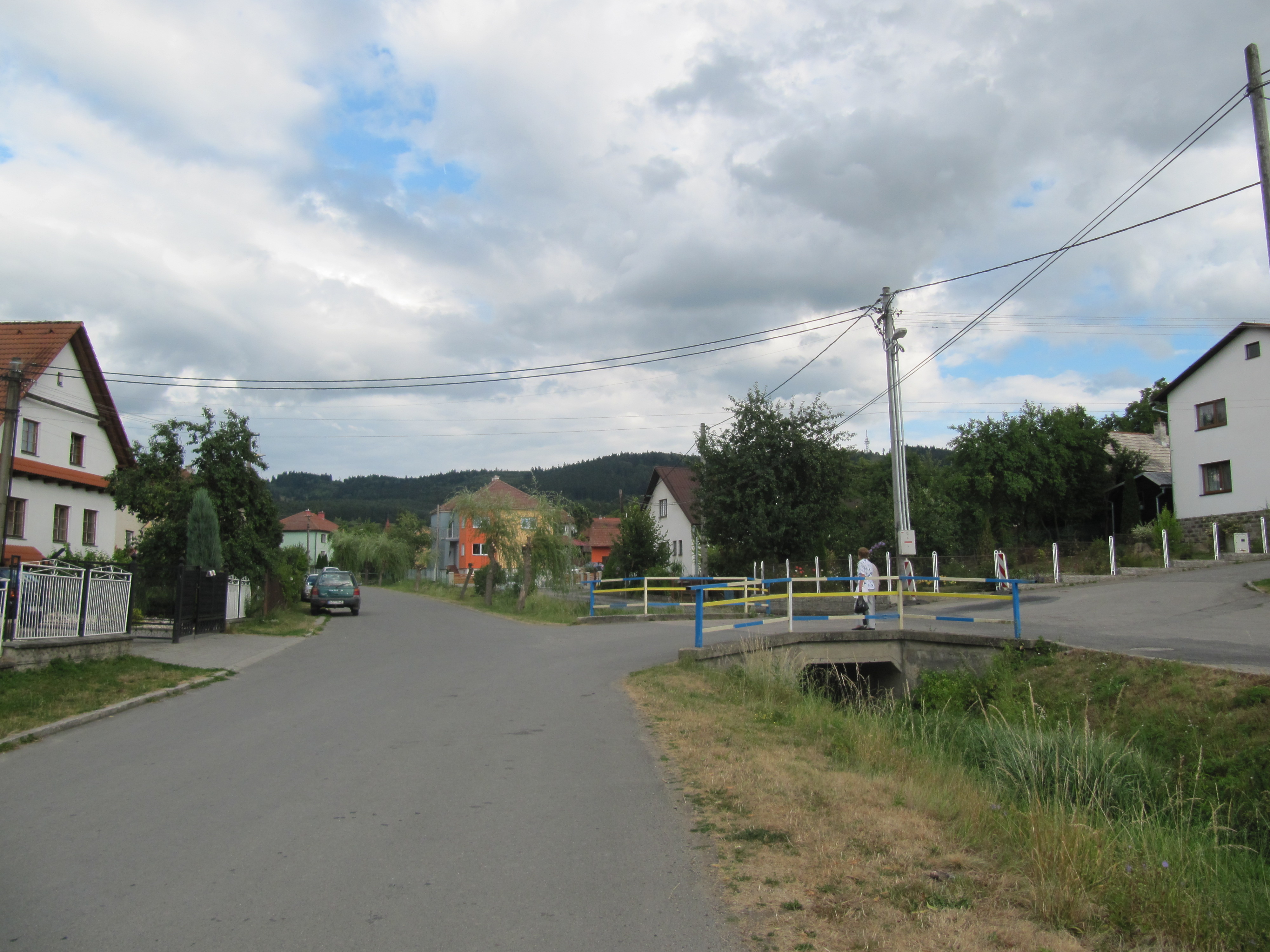 Poteč, Zlín District, Czech Republic.